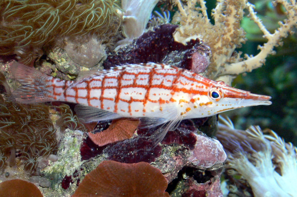 Longnose Hawkfish (Oxycirrhites typus)